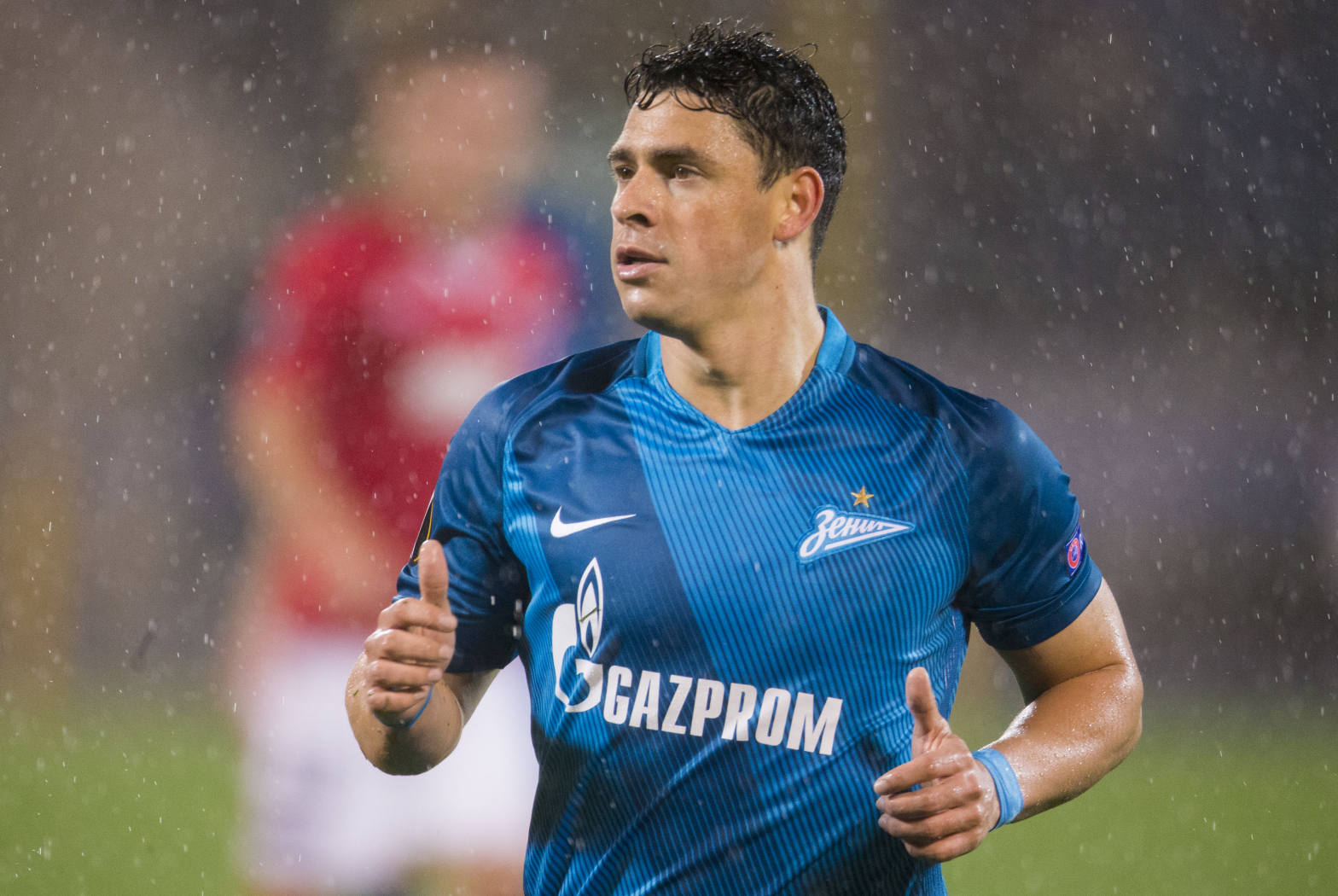 Giuliano Victor de Paula